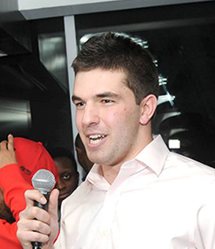 A photo of American tech entrepreneur Billy McFarland at a 2014 Magnises event.